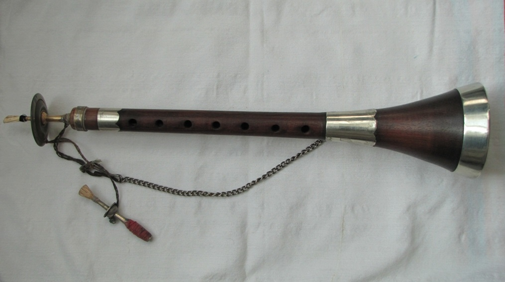 The surna (or sorna), an Iranian woodwind instrument, typically used in traditional Persian and Lurish music.